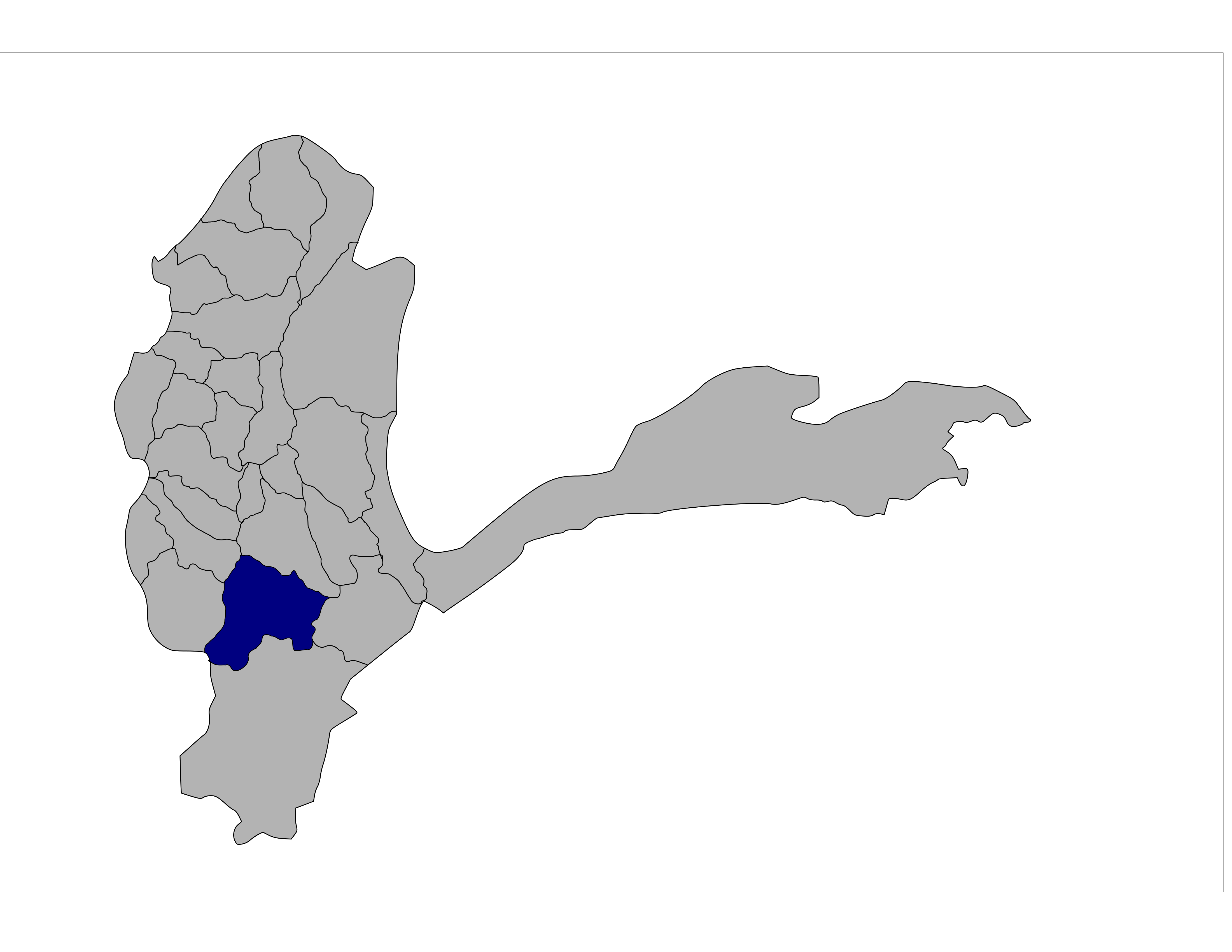 Shows the boundaries of Yamgan District, Badakhshan Province, Afghanistan.